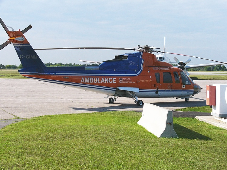 I took this photo of an S-76A (C-GIMM) at Ottawa Airport 11 August 2007